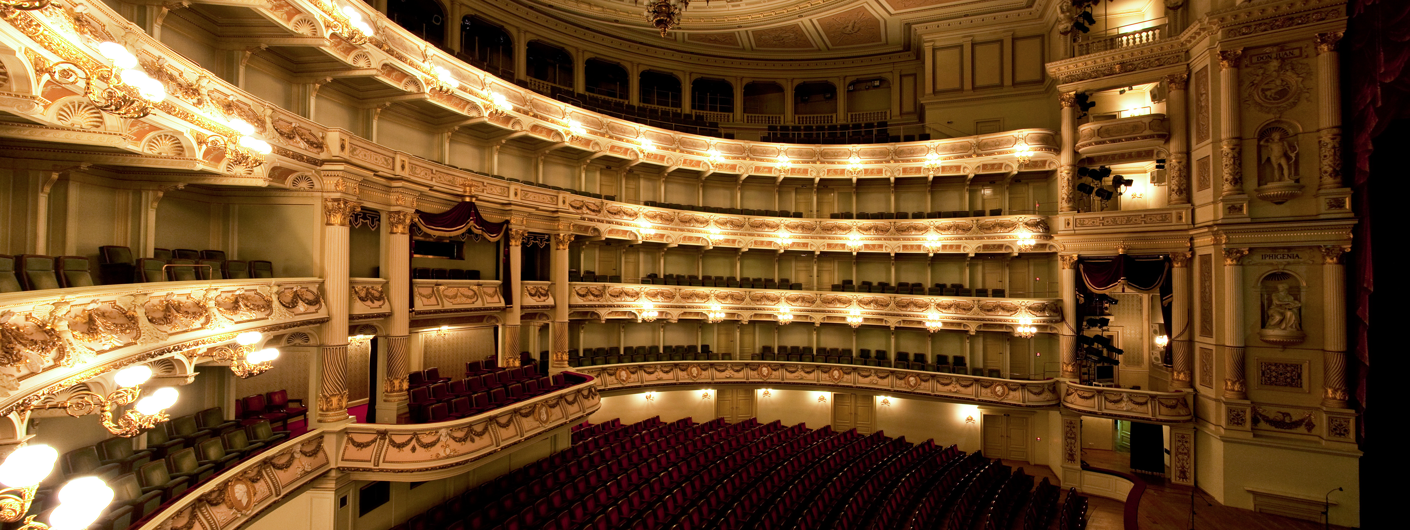 Interior of the Semperoper in Dresden. 51°3′16.3″N 13°44′6.5″E / 51.054528°N 13.735139°E